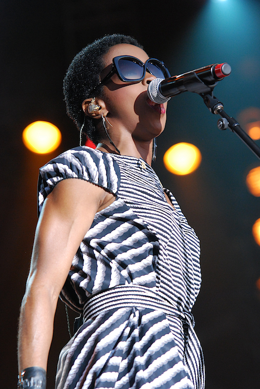 American singer-songwriter Lauryn Hill performing at the 2012 RBC Royal Bank Bluesfest in Ottawa.